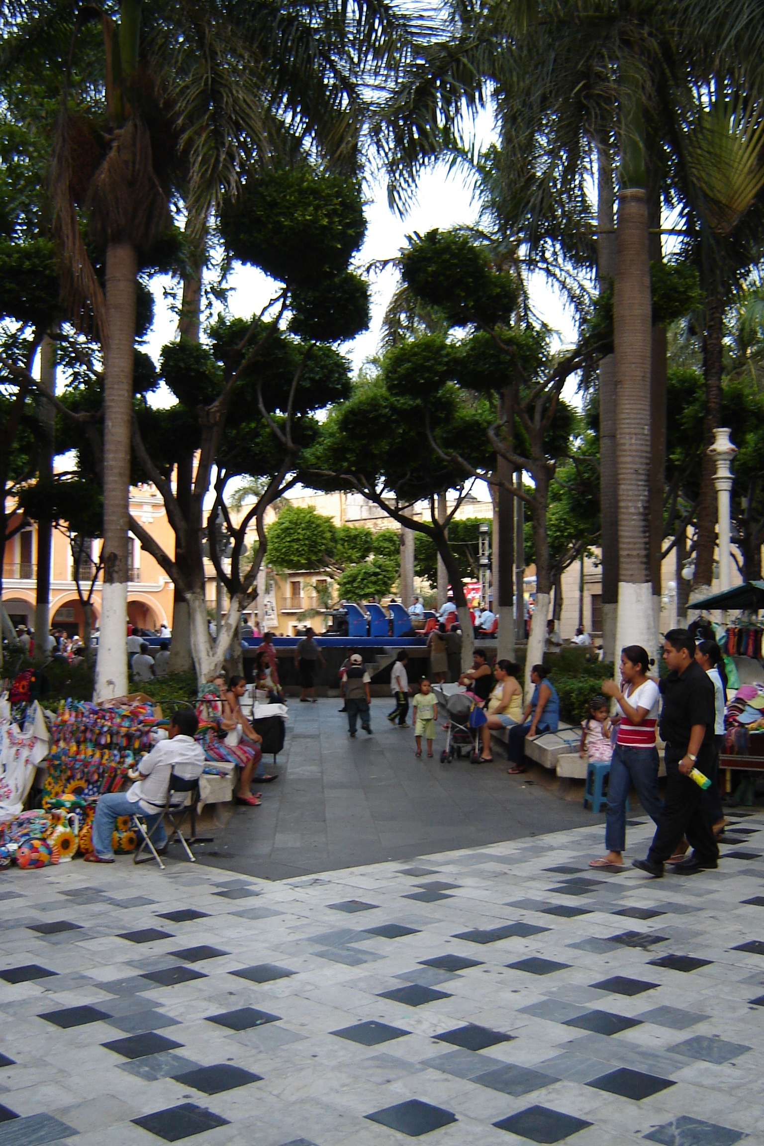 Picture taken by user:asedzie summer 2005.